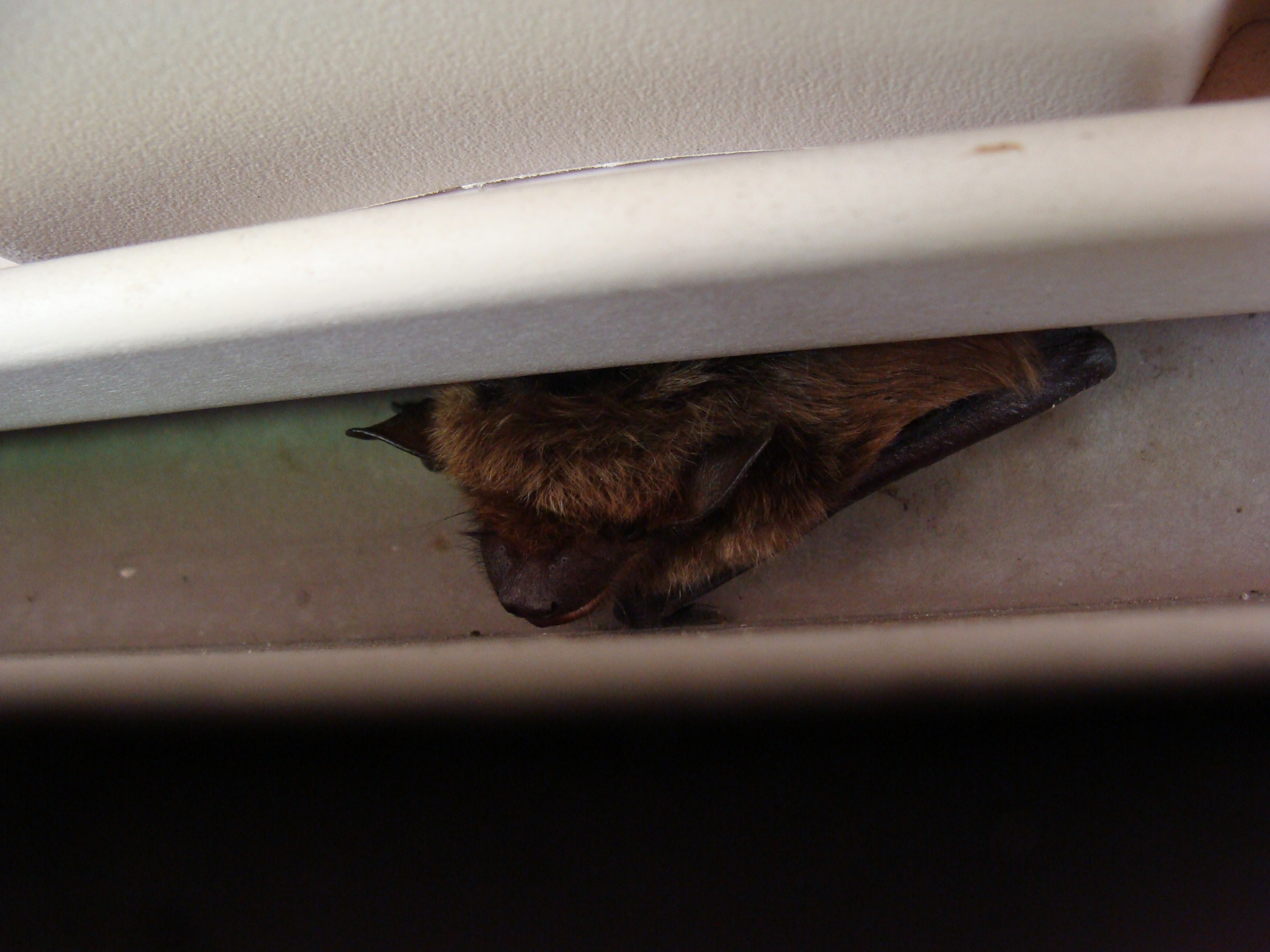 Little brown bat (Myotis lucifugus) in summer roost - the eaves of a house in Pennsylvania